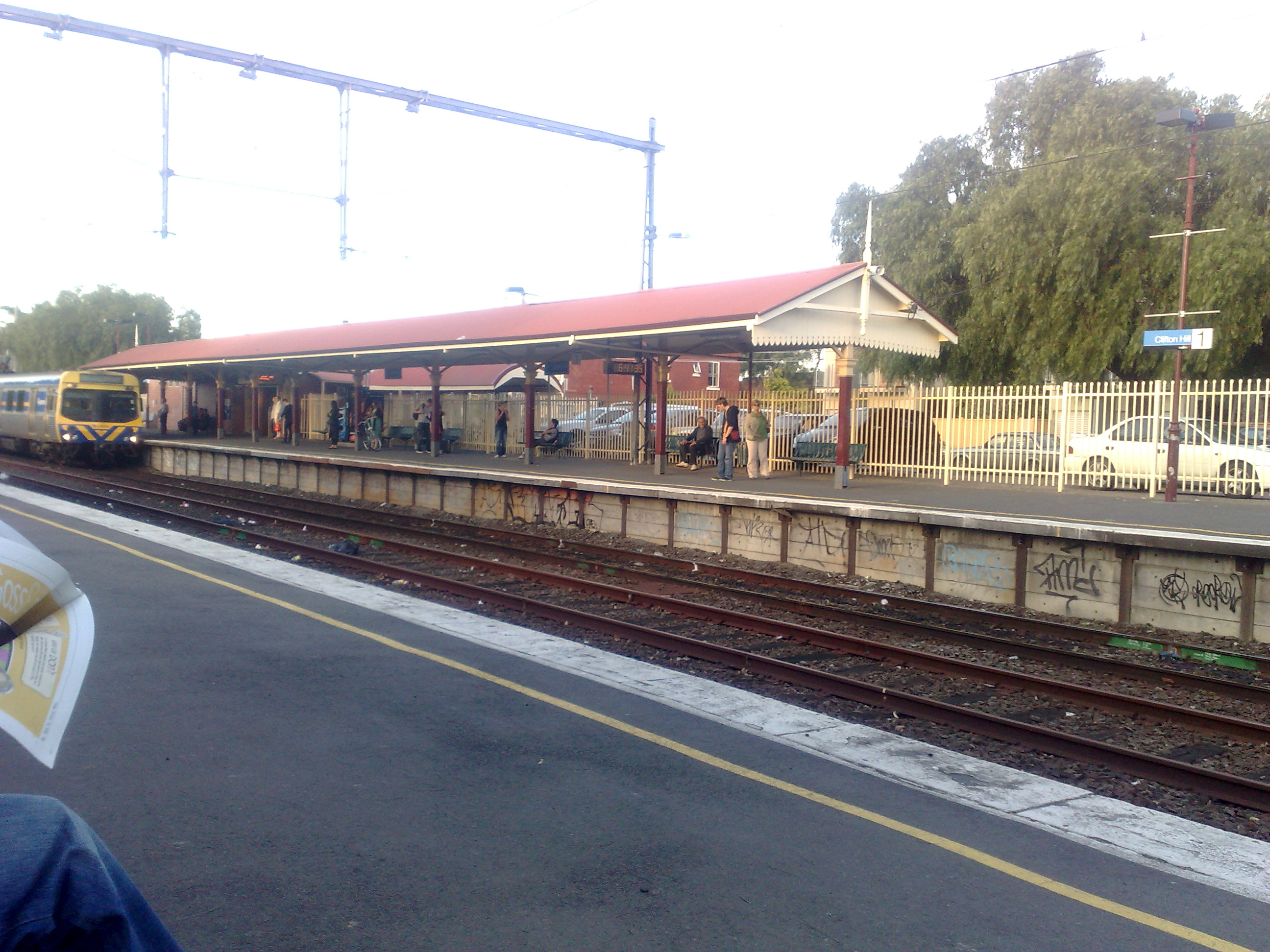 View of Clifton Hill Railway Station, Melbourne, overlooking Platform 1